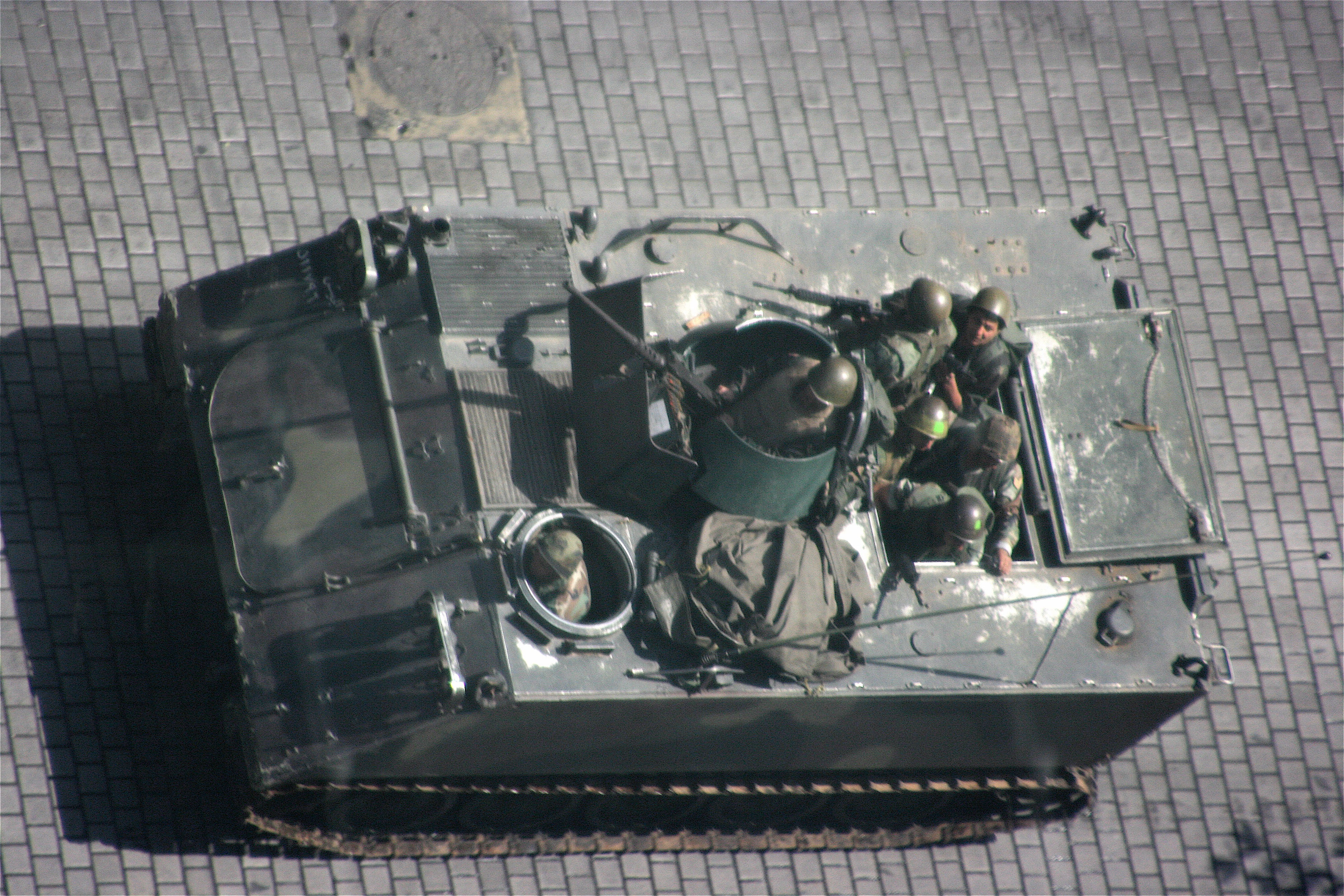 Lebanese M113 armoured personnel carrier in Beirut during the 2008 unrest in Lebanon